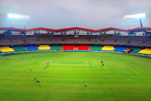 Jawaharlal Nehru Stadium kochi